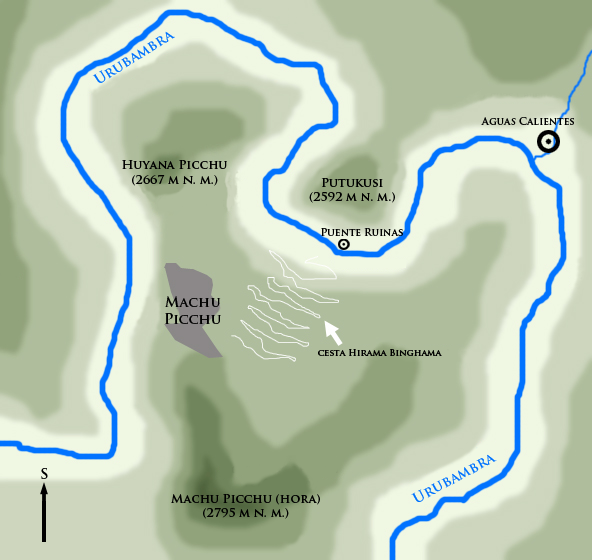 Machu Picchu Location